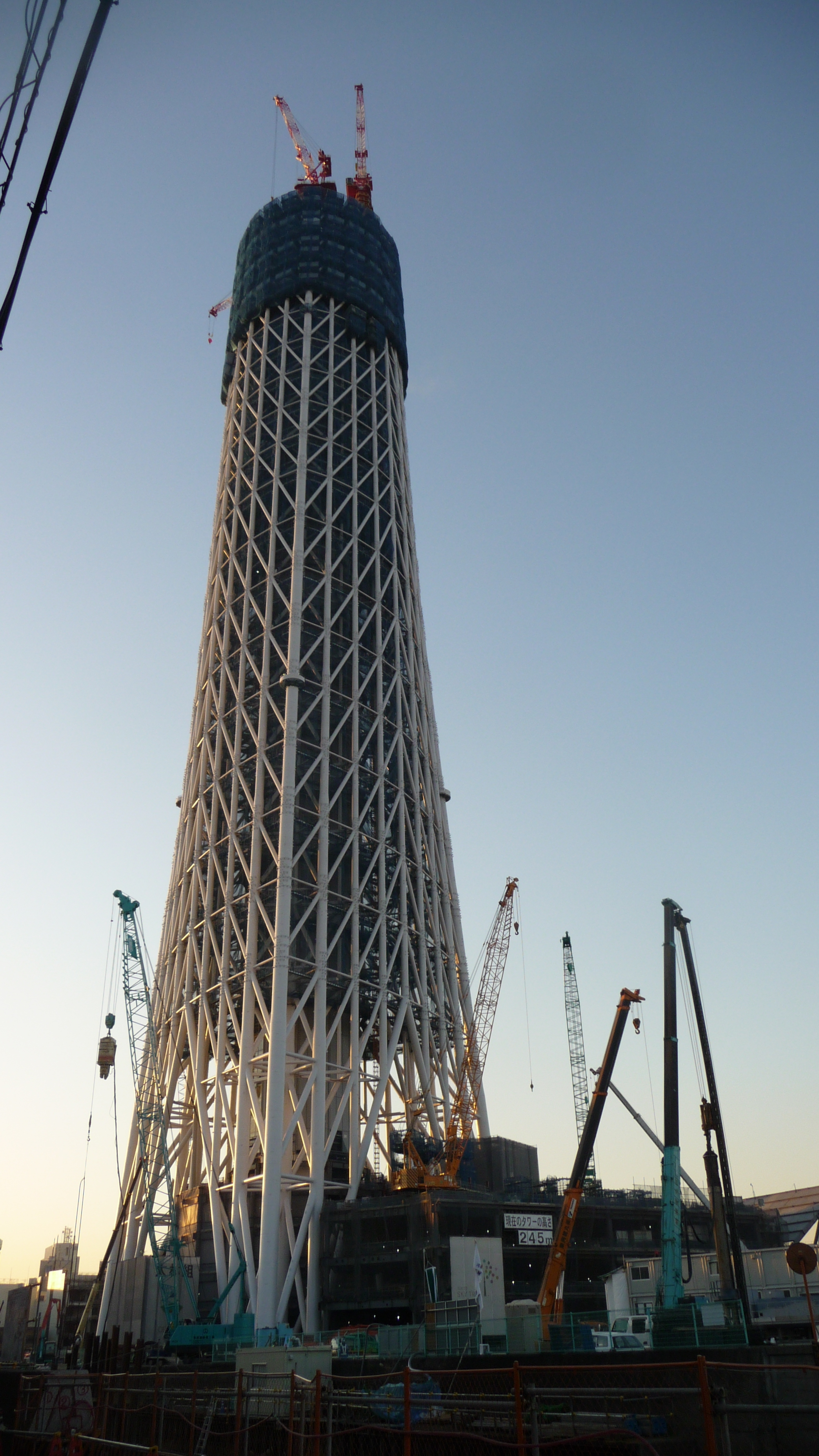 Entire view of Tokyo Sky Tree from ground (height of 245 m), after lower part of scaffolding removed. Photo taken from a side of small river on 22, December 2009.